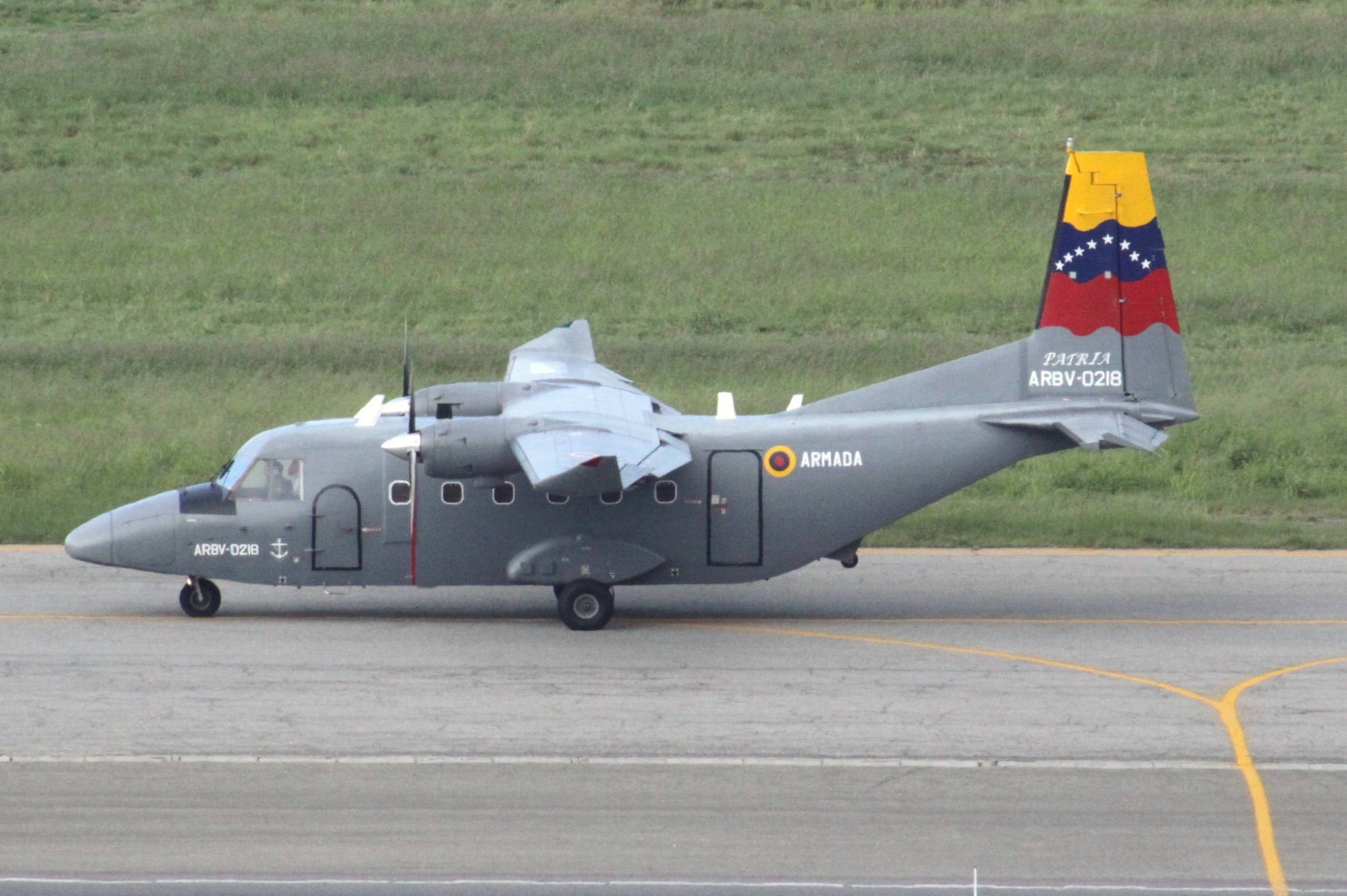 ARBV-0218 Casa C.212 Venezuelan Armada At Caracas Simón Bolívar International